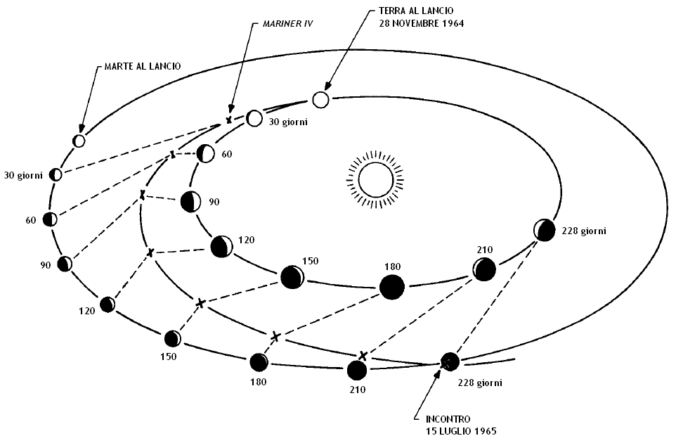 Mariner IV trajectory.